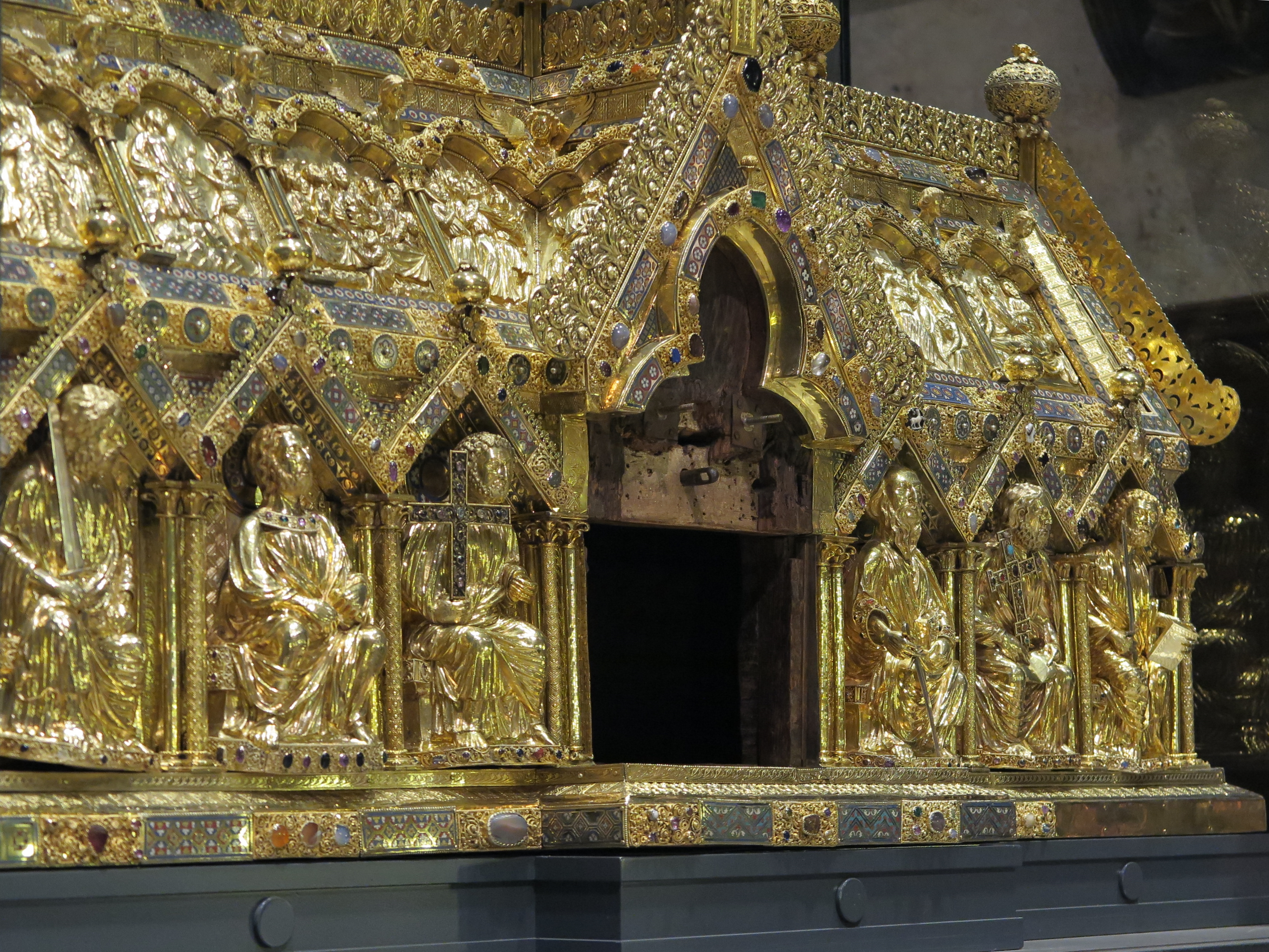 The open Shrine of Mary (Marienschrein) in Aachen Cathedral during the Aachen Pilgrimage 2014.